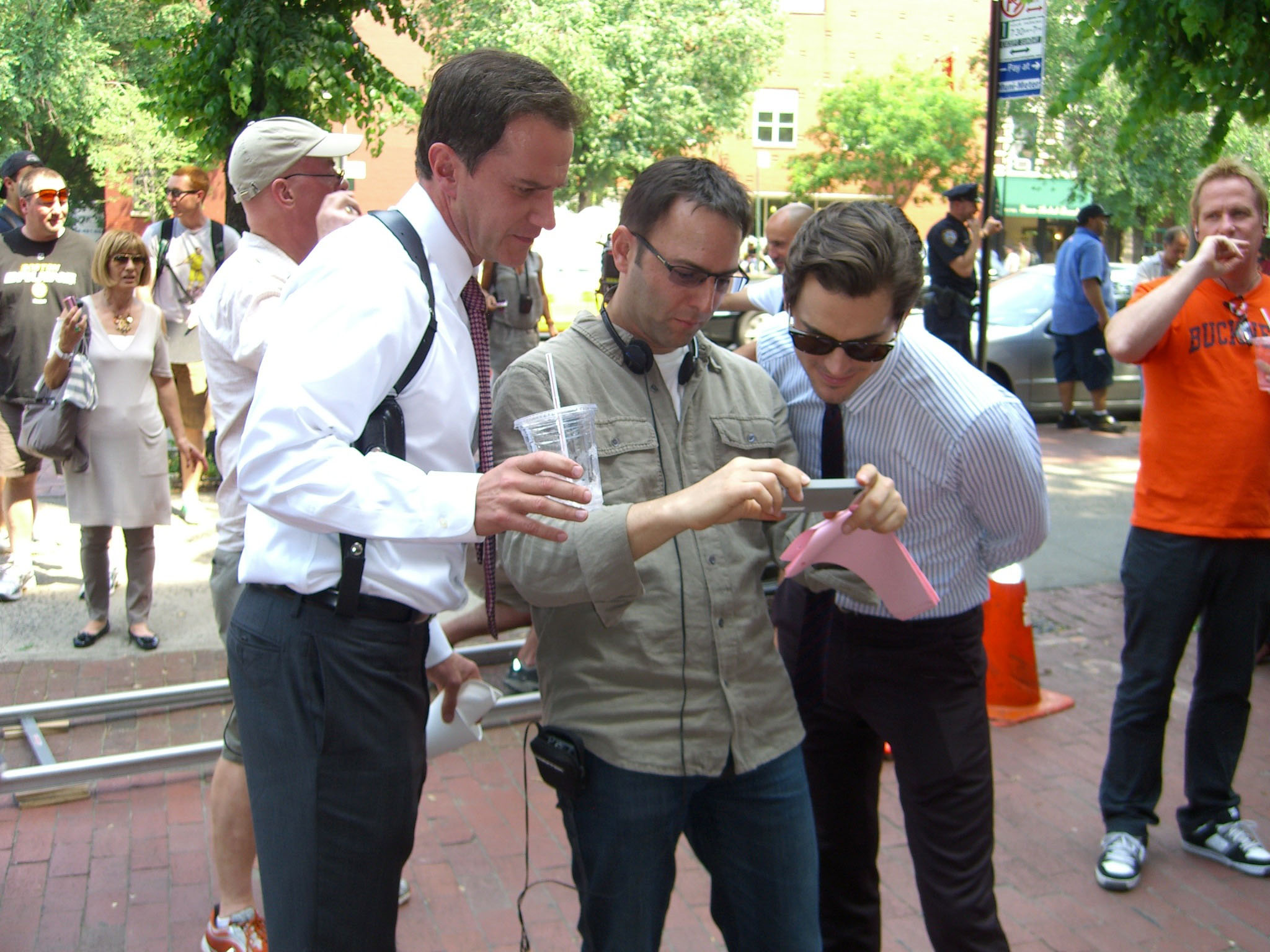 Actors Tim DeKay (left) and Matthew Bomer (right), examining a photograph taken by a production person (center) during the June 7, 2011 production of "On the Fence", the ninth episode of the third season of the American TV series White Collar in Manhattan's West Village. Photographed by Luigi Novi. This photo is not in the public domain. It may, however, be used, modified and published for any purpose, free of charge, only if the photographer is properly credited, either by linking the photograph to this page, or with an easily visible credit to the photographer placed near the photo in each instance in which it is used. (See licensing information below.) Publication of this photo without this proper attribution constitutes copyright infringement. If you have any questions, you can contact me on my Wikipedia Talk Page.